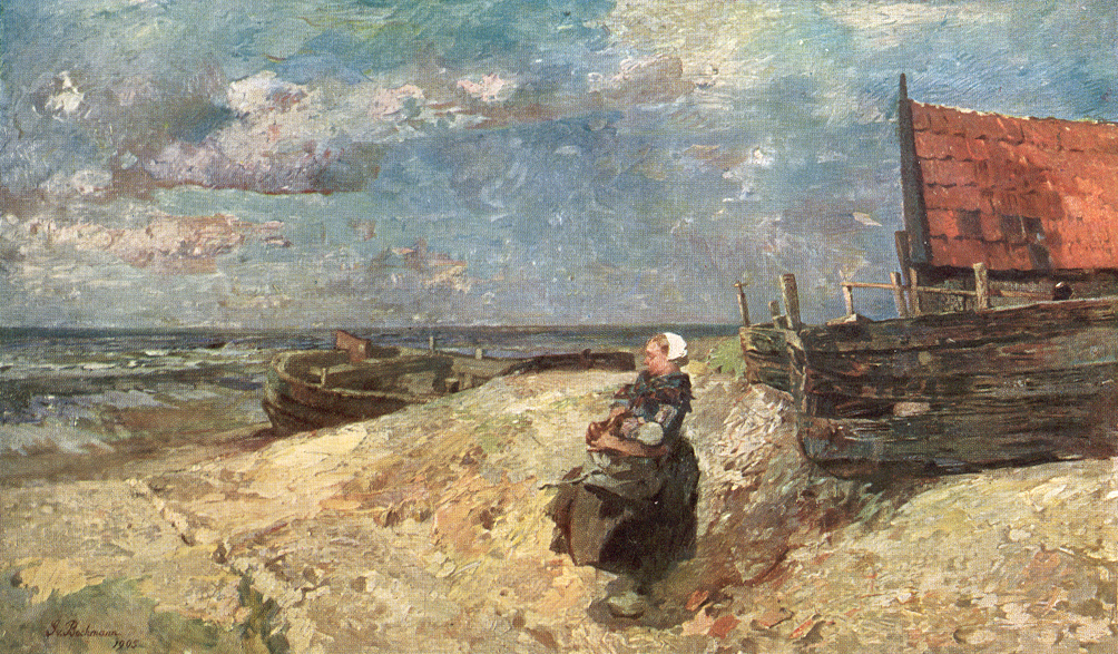 This is an oil painting by the baltic-german painter Gregor von Bochmann (1850 - 1930). It was painted in 1905 and is entitled "In Erwartung" (waiting) or "Strand bei Nordwijk" (beach near Nordwijk (in Holland)). It has the number B0278 in the work catalog. The size of the painting is not known. This colour reproduction appeared April 1911 in the art magazine "Die Rheinlande", Düsseldorf, Germany.